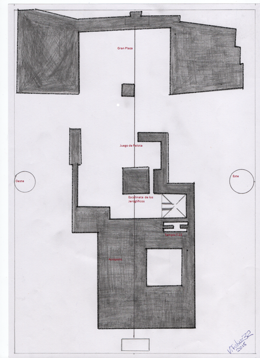 Maya Copan observatory